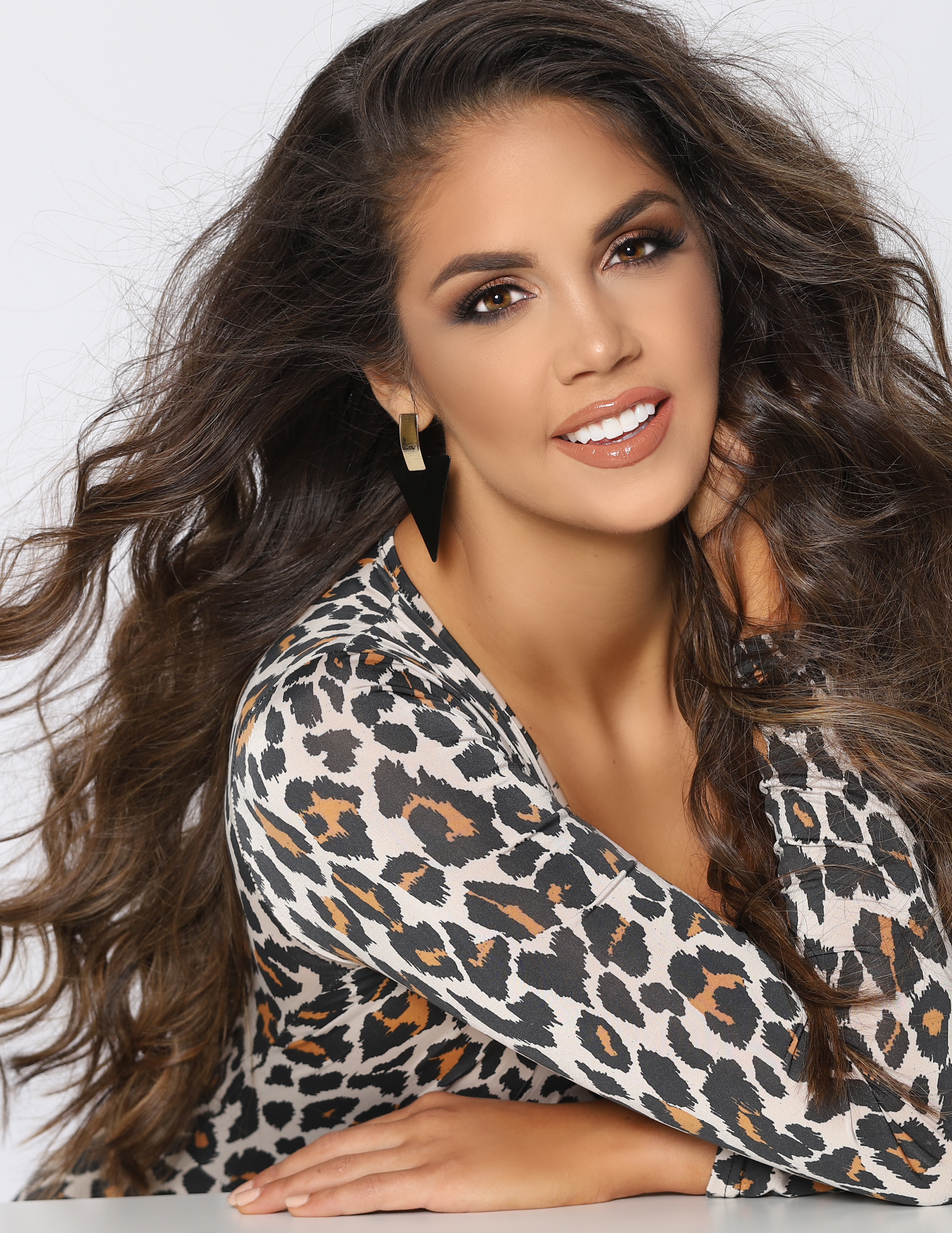 Allison Cook shooting with Georgina Vaughan